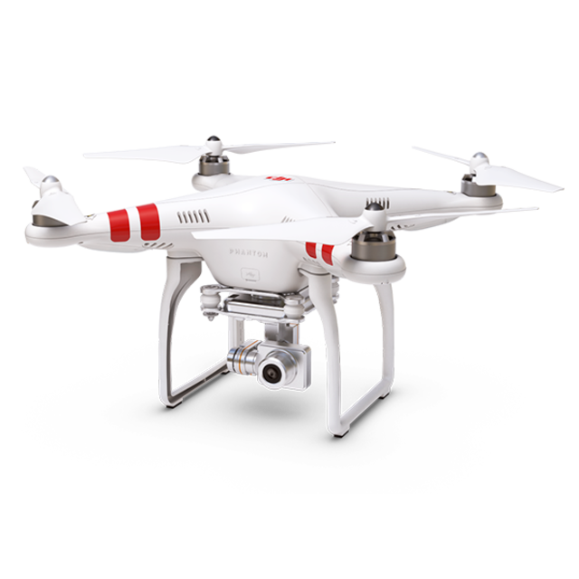 Phantom 2 Vision+ quadcopter